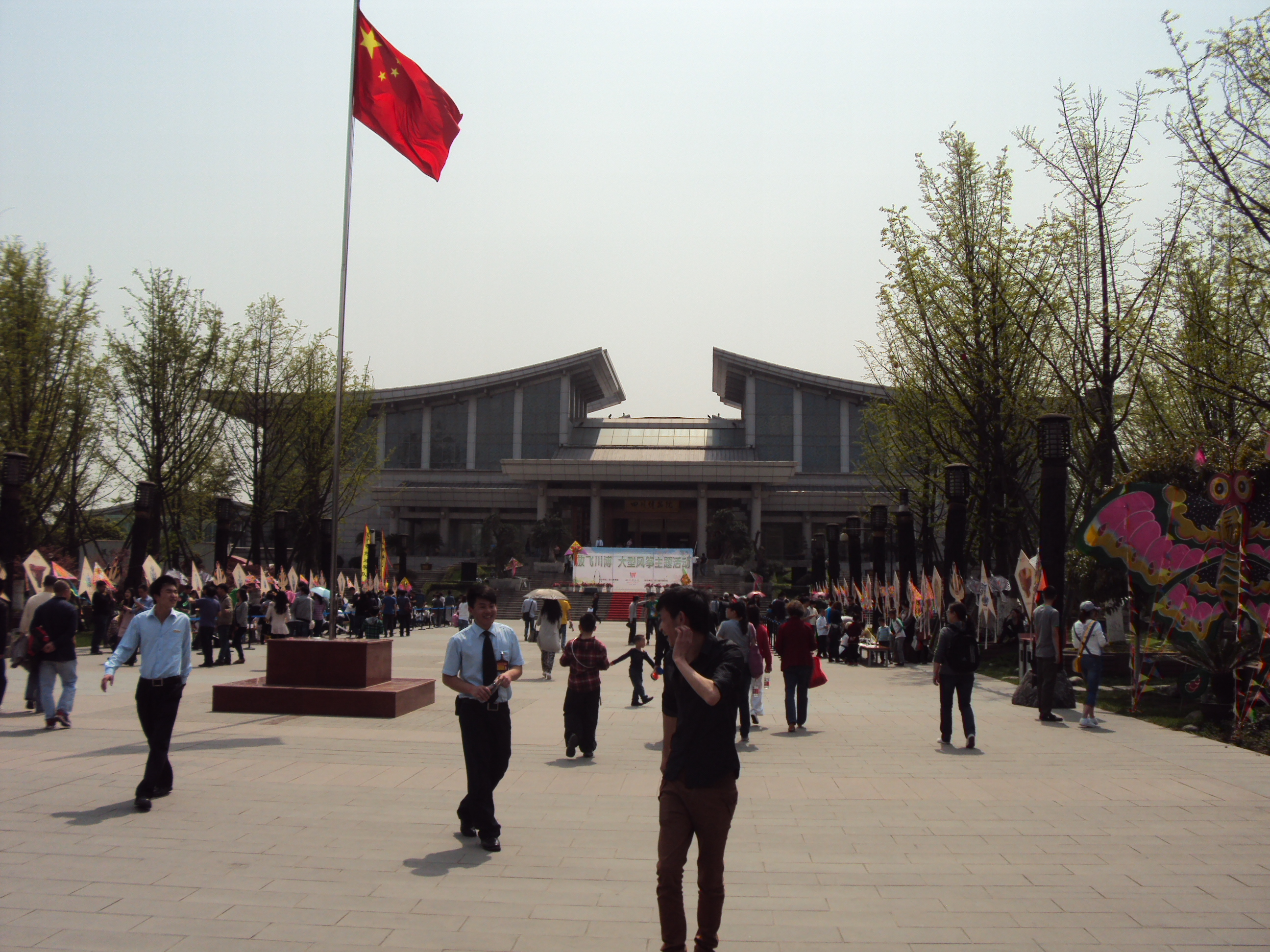 中文（中国大陆）: 四川博物院外观。(Sichuan Museum, Qingyang District, Chengdu, China.)